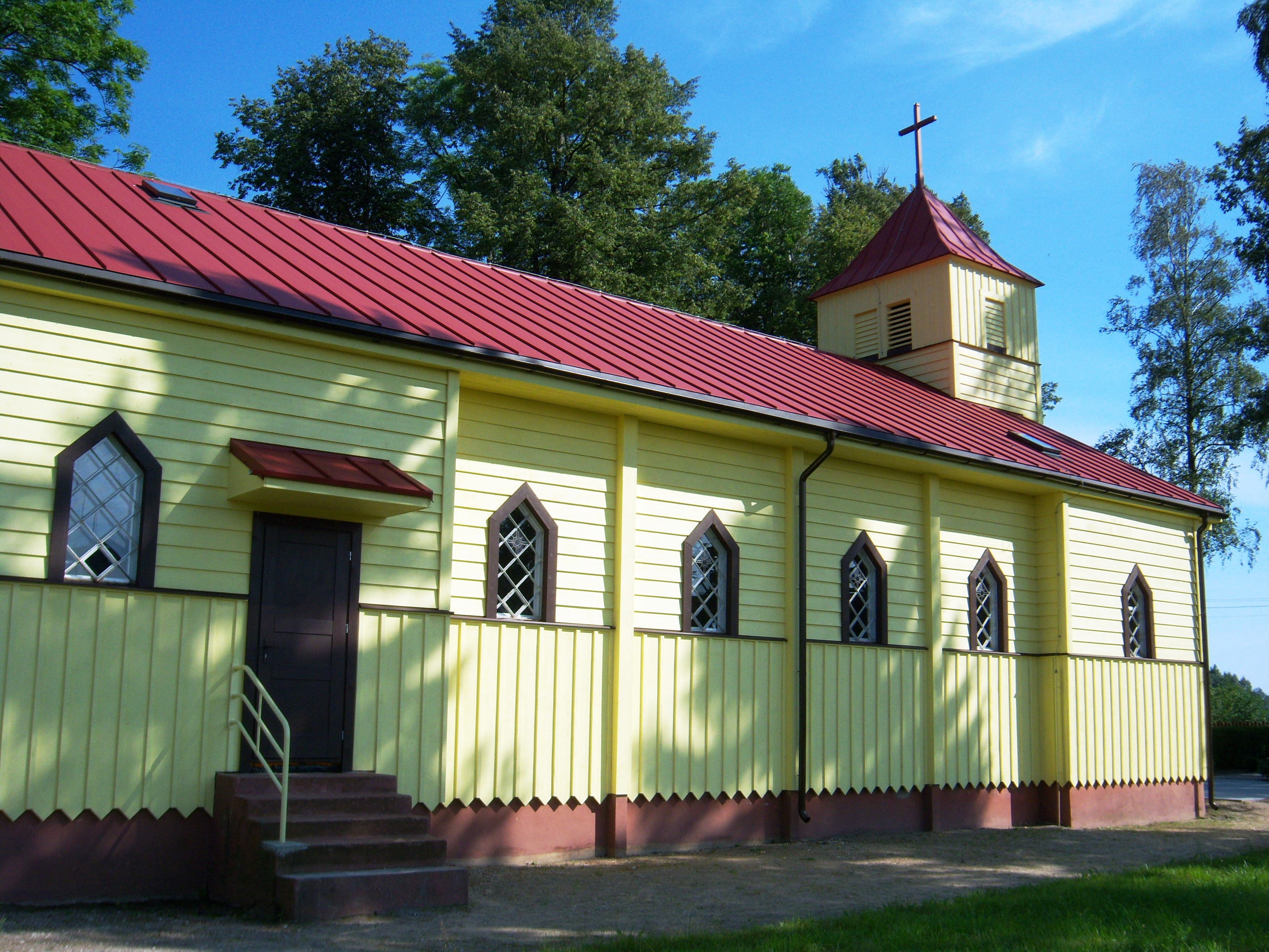 Plikiai Catholic church, Klaipėda District. Lithuania